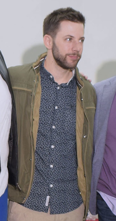 Jueves 14 de febrero de 2019 En el Fondo de Cultura Bella Época, se realizó la conferencia de prensa para dar a conocer los pormenores de la edición 14 de las Convocatorias 2019 de Shorts México-Festival Internacional de Cortometraje de México. Con la participación de Jorge Magaña, director de Shorts México; Karina Gidi, actriz; Luis Arrieta, actor; Cristian Calónico, representante de la Secretaría de Cultura y representantes de IMCINE. El festival se celebrará del 4 al 11 de septiembre del presente año. Fotografía: Zoé Gutiérrez/ Secretaría de Cultura de la Ciudad de México